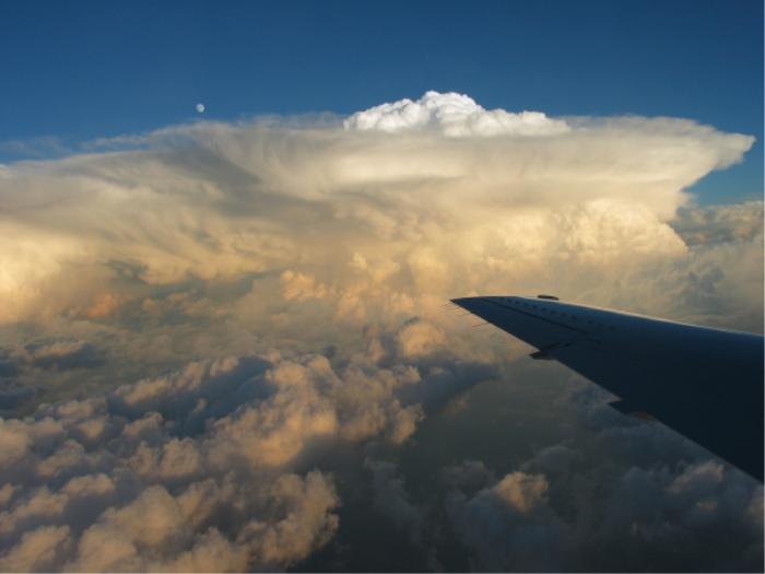 Overshooting top